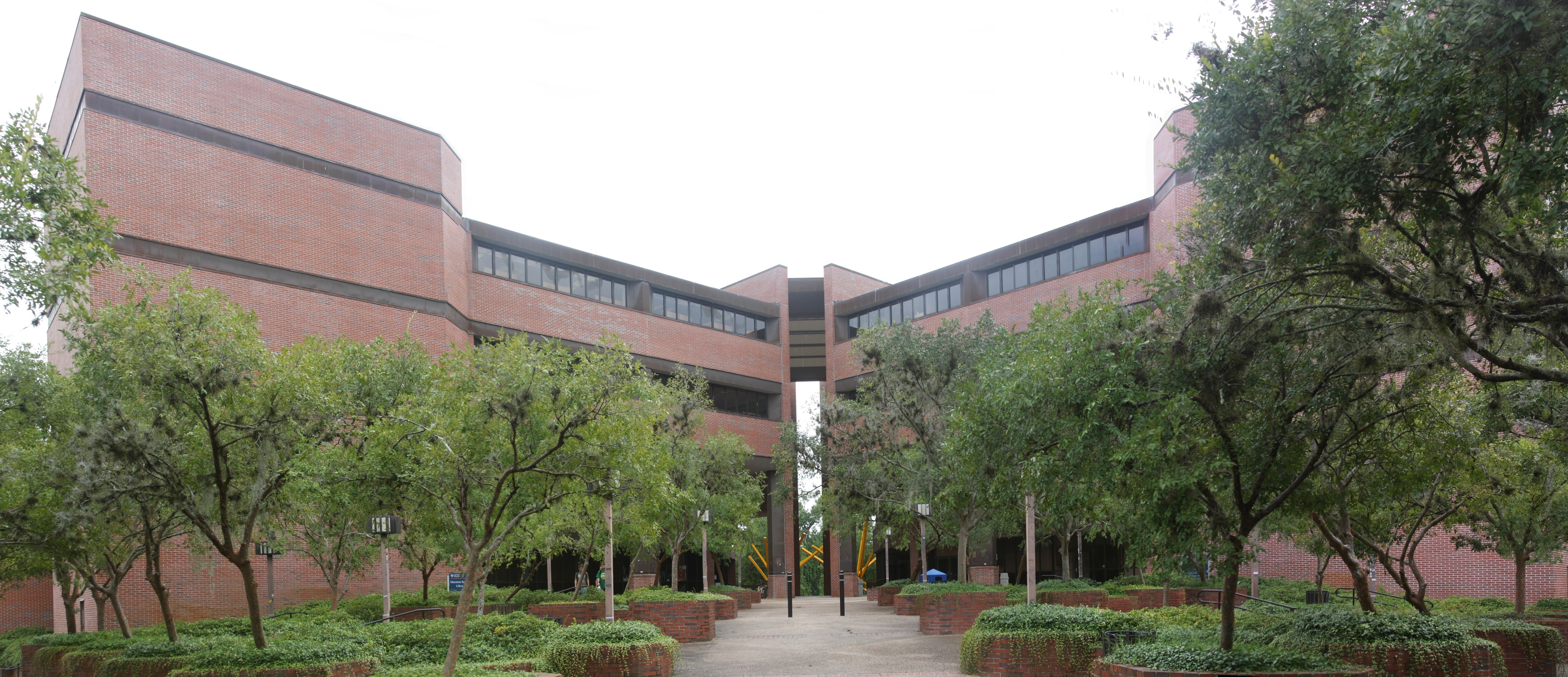 Marston Science Library (left) and Computer Science and Engineering (right) at the University of Florida. The "French Fries" structure can be seen between the two buildings.